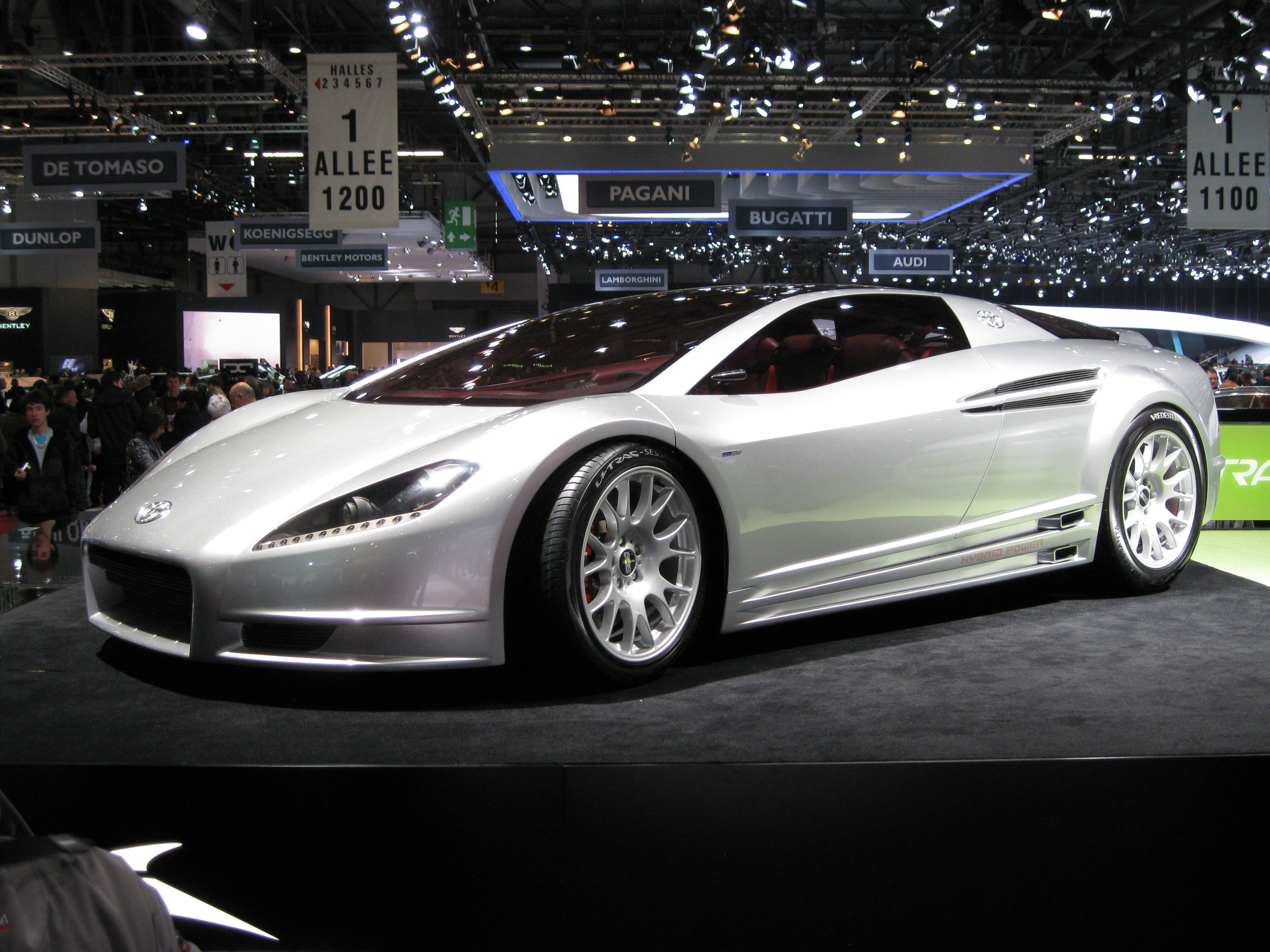 Geneva Motor Show 2011